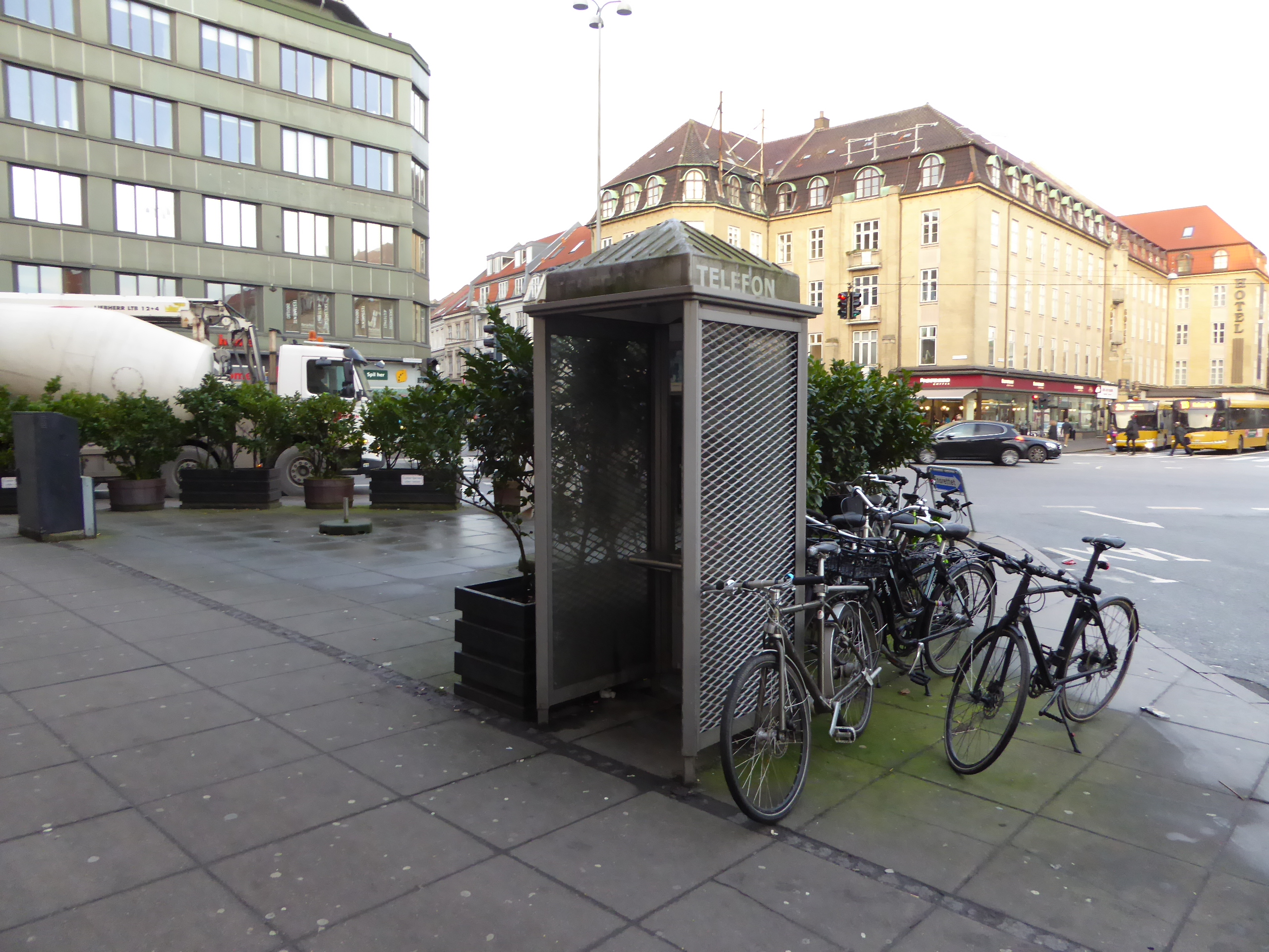 Telephone booth at Banegårdspladsen in Aarhus in Denmark. This and two others were taken out of service a few days before as the last in Aarhus and probably the whole of Denmark.